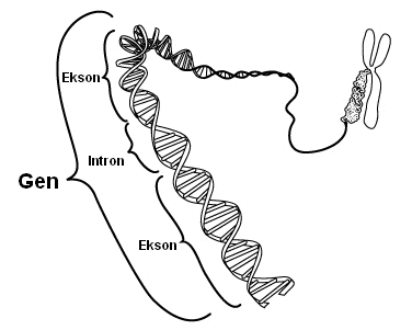 This image shows the coding region in a segment of eukaryotic DNA. [1]